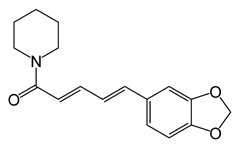 Chemical structure of piperine. Own work.